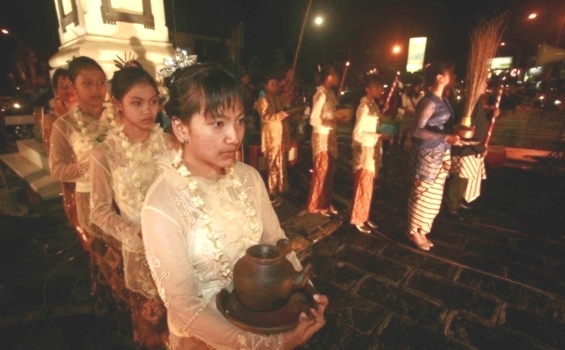 My Picture